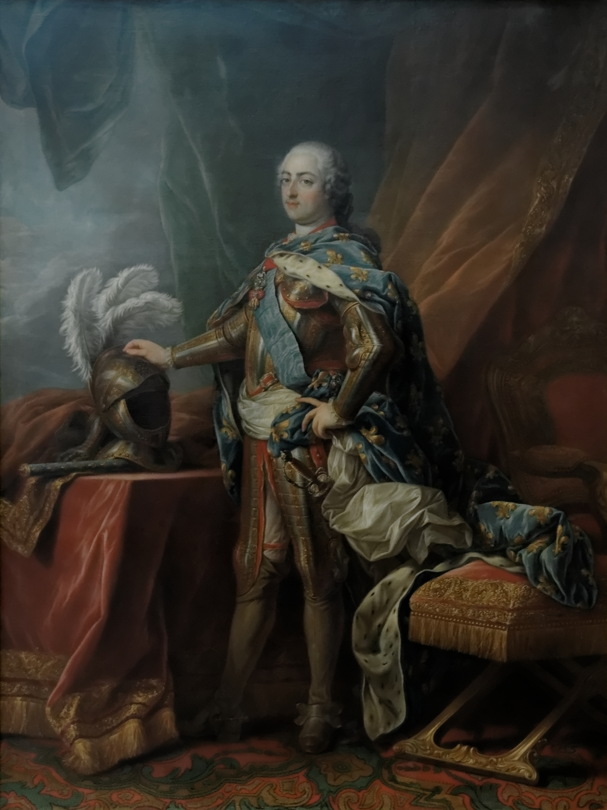 copy of a lost painting